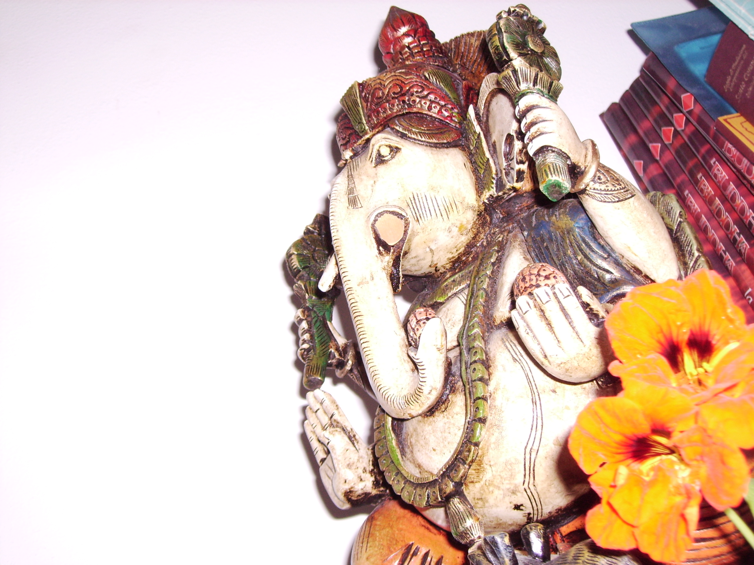 A statue of Ganesha from the Indian District of Andra Pradesh.